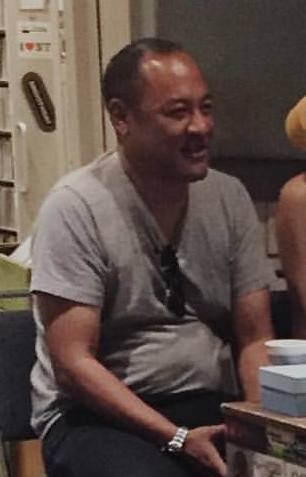 Dan "The Automator" Nakamura during the interview with Velvet Einstein